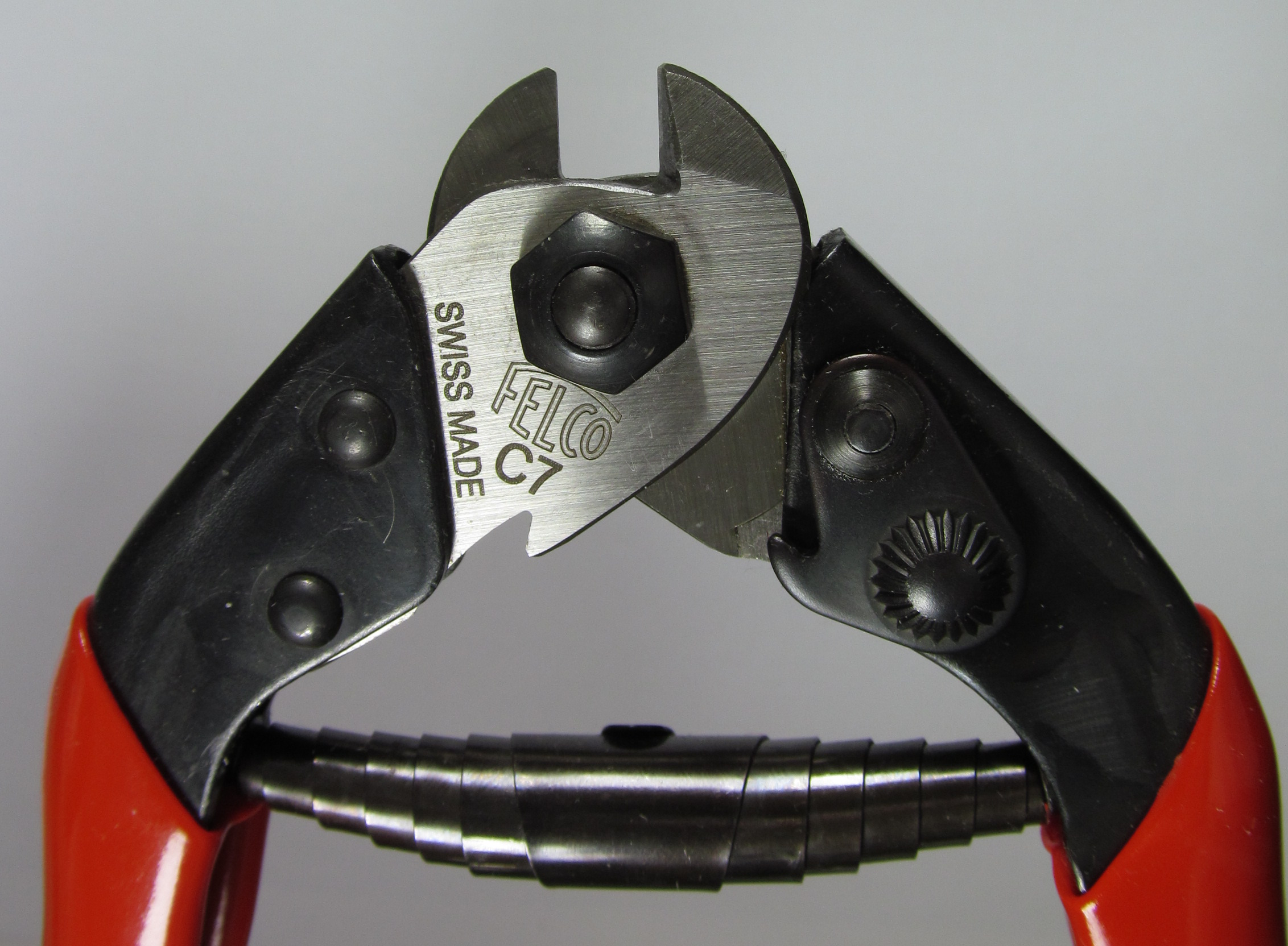 Wire cutter edge